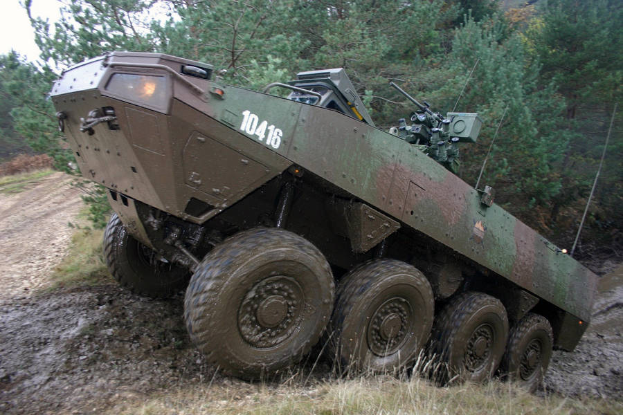 SKOV (Middle Wheeled Armoured Vehicle) XC 400, 8 x 8 Svarun